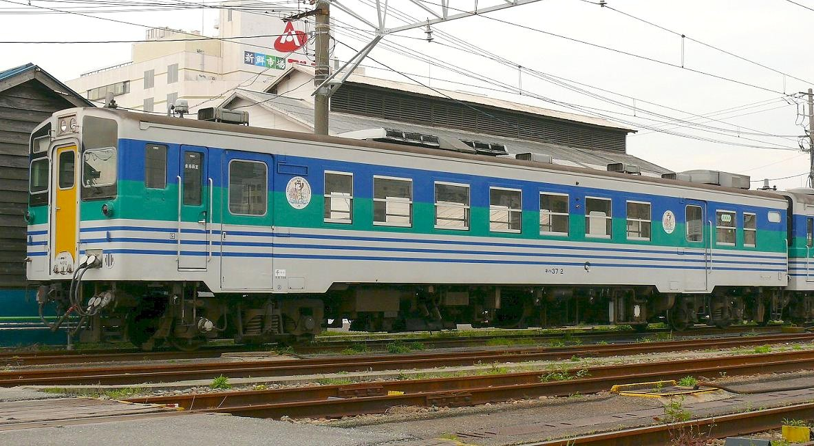 East Japan Railway Type Kiha30 Kururi Line(Japan).